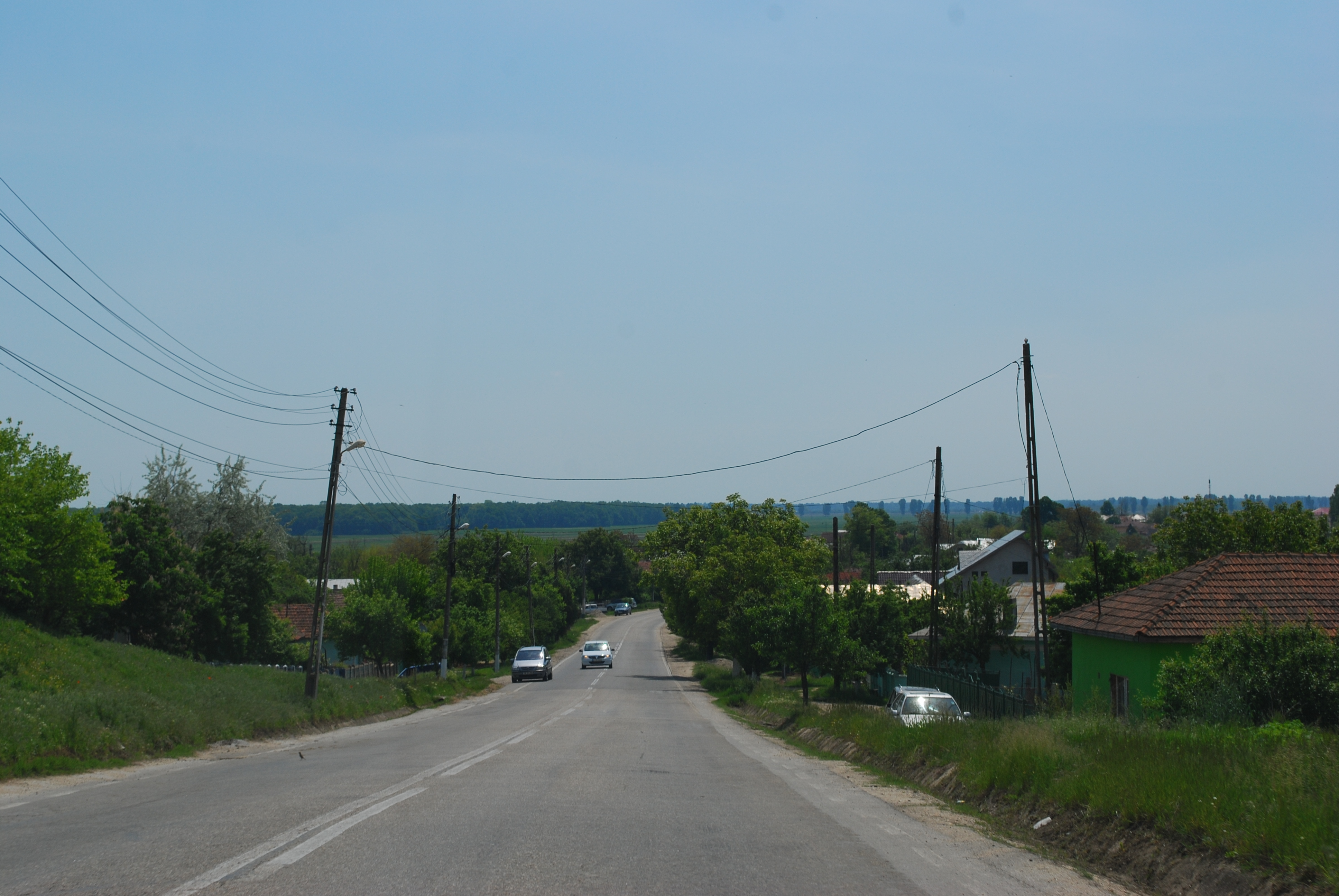 DN64 road in the village of Osica de Sus, Olt County, Romania